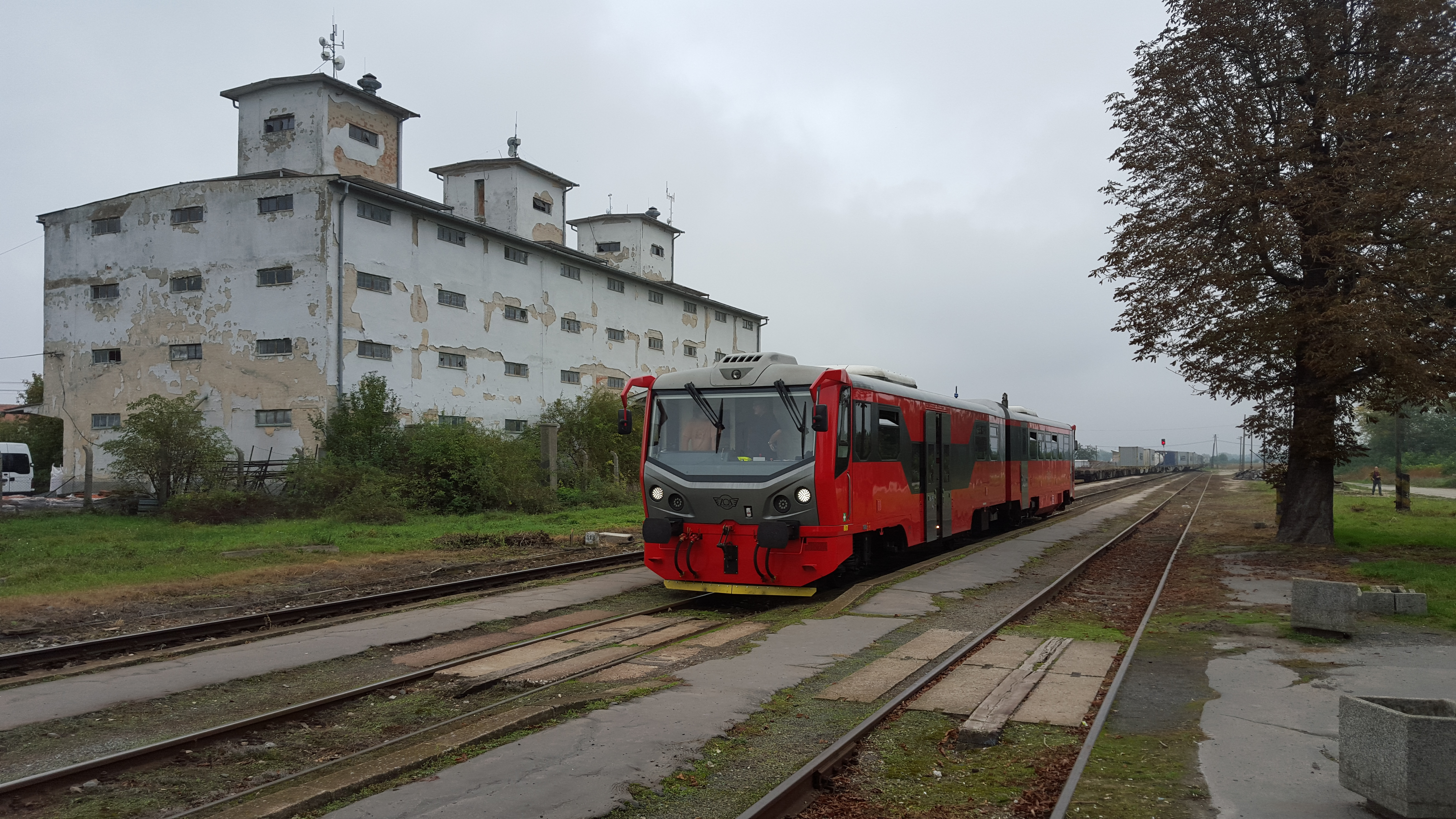 A diesel railcar of ZOS Zvolen at a station in Zlatná na Ostrove in Slovakia. It got here on a railfan tour.